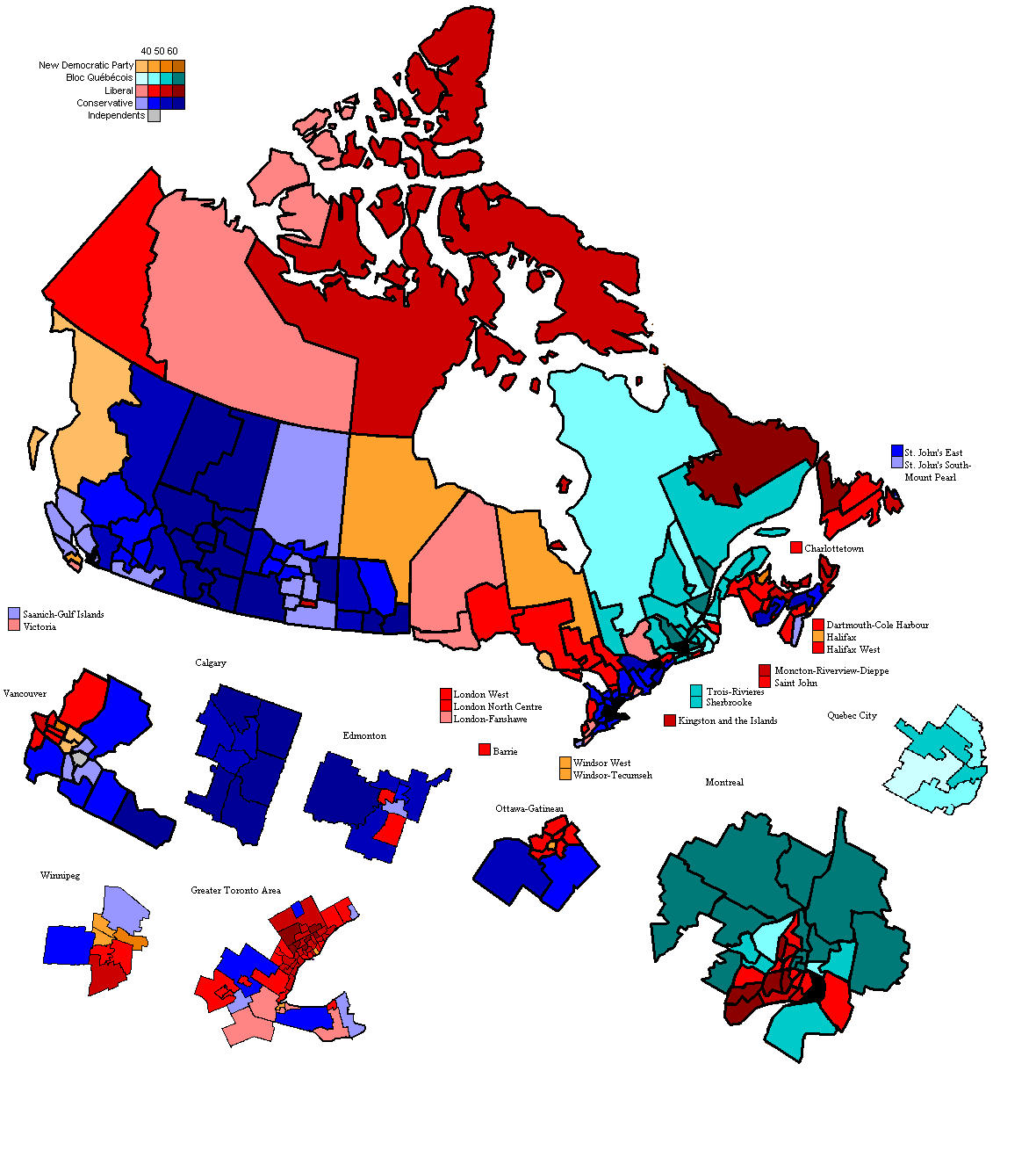 Summary: Map of the Canadian federal election, 2004 showing the riding coloured by party and % of popular vote.